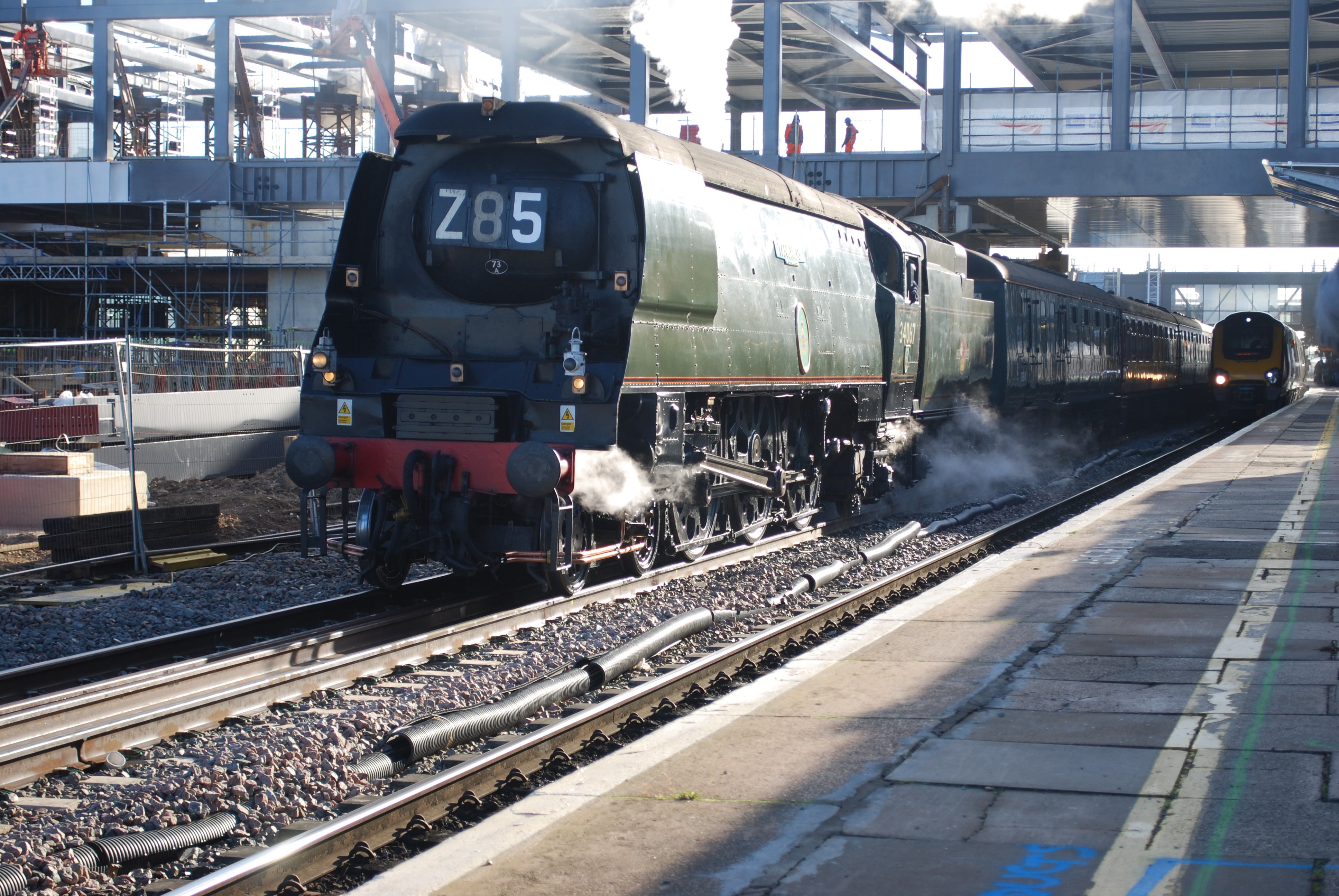 Tangmere was taking a steam charter from Paddington to Minehead. Note the new bridge under construction across the existing platforms and the new additional ones being constructed to the north (left in picture)